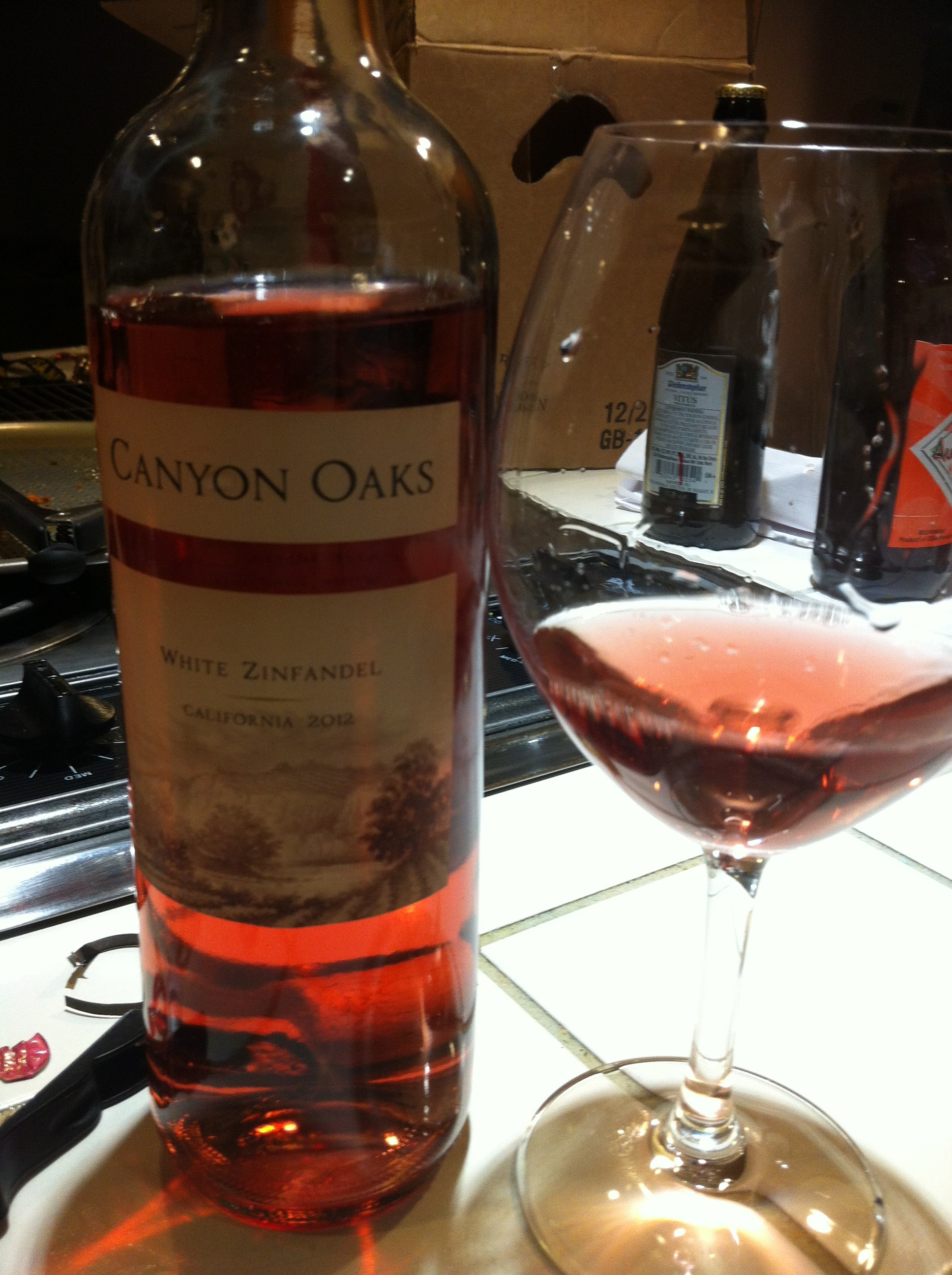 California White Zinfandel